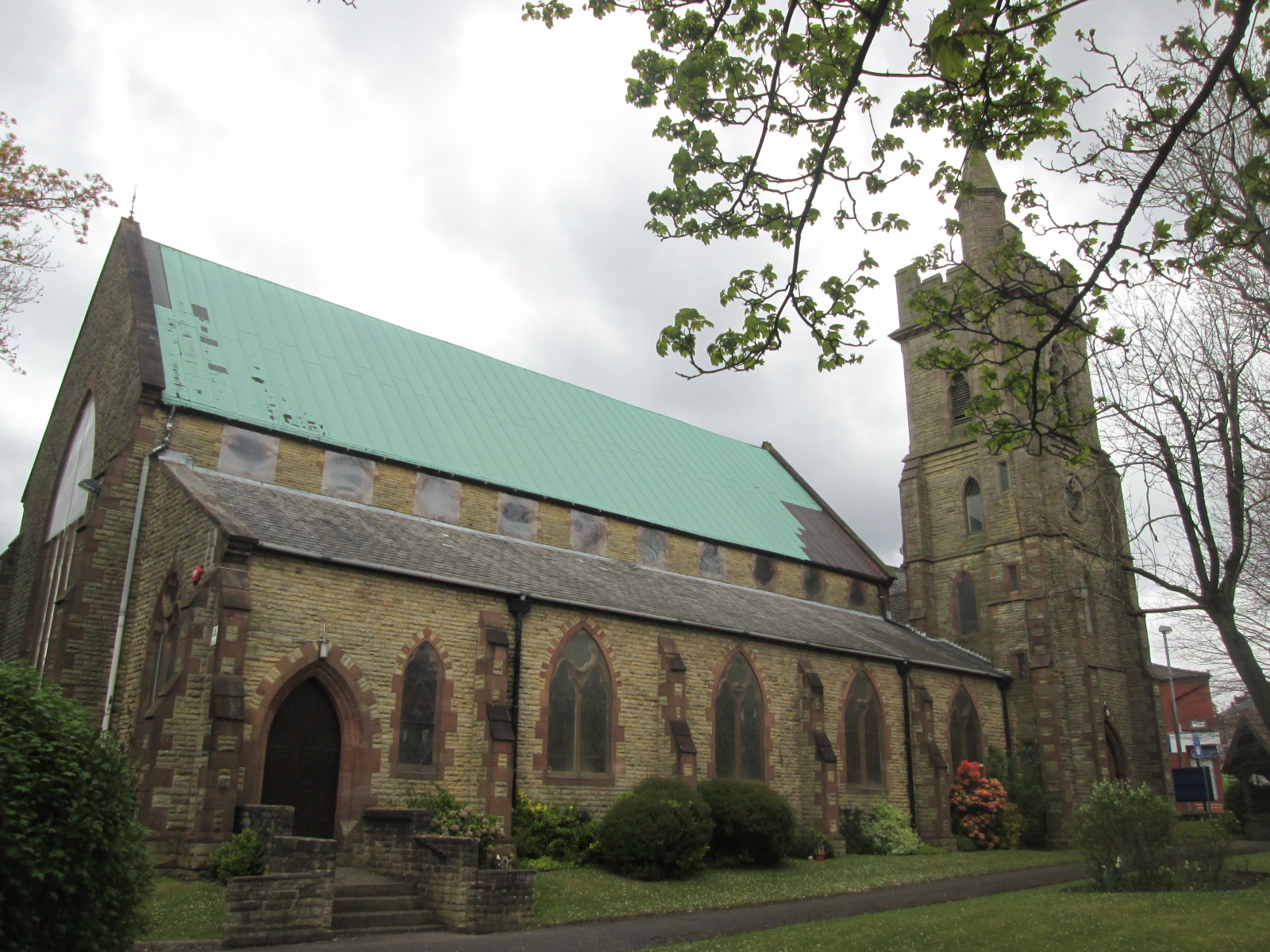 Photograph of Christ Church, Chadderton, Greater Manchester, England